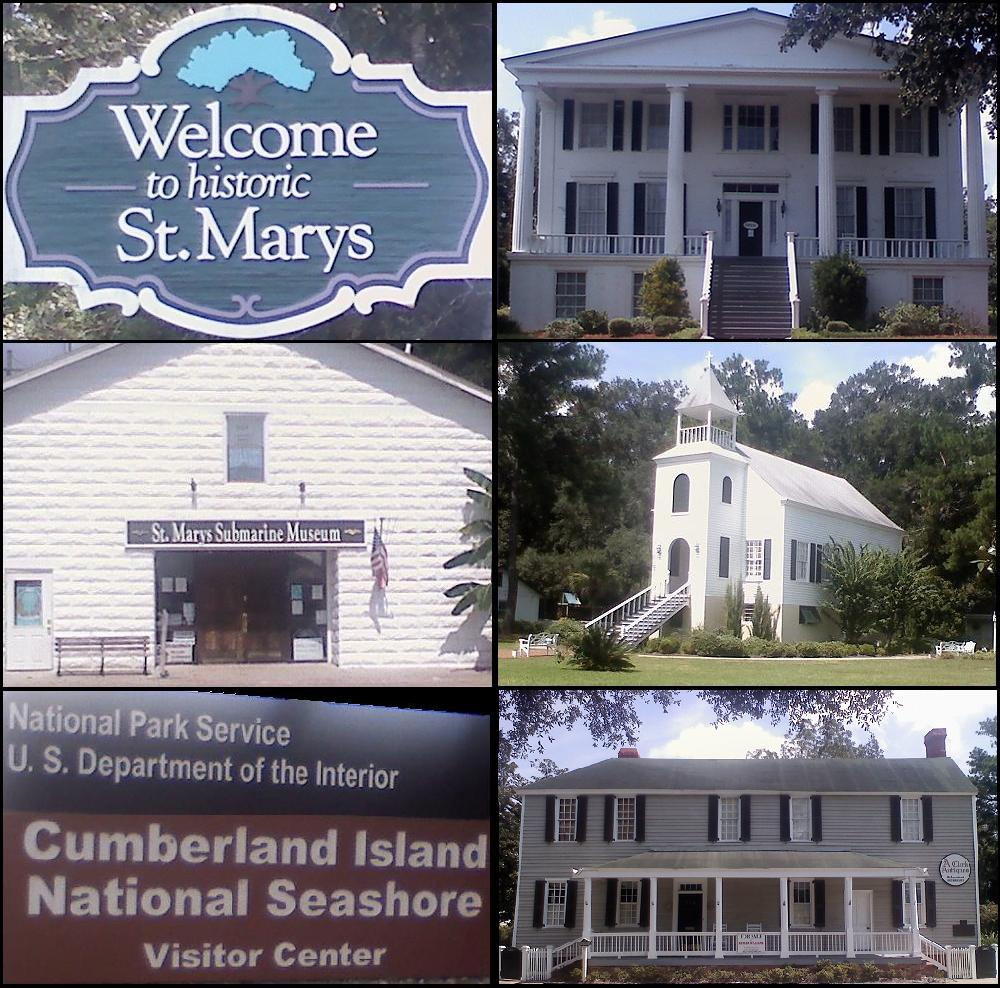 Montage of St Marys GA images - Orange Hall circa 1830, First Presbyterian Church circa 1808, Jackson-Clark-Bessent-MacDonell-Nesbitt House circa 1801, Cumberland Island National Seashore, and St Marys Submarine Museum.